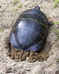 A painted turtle laying eggs in New Hampshire